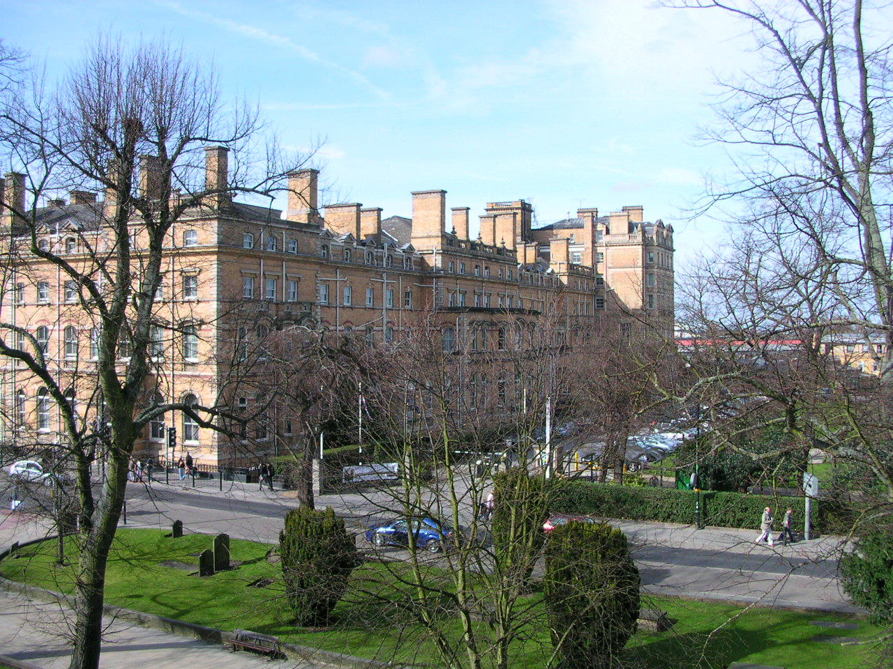 York railway station hotel from the walls, England.